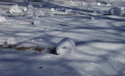 Snow rollers photographed at Scully Park in Lincoln, Illinois